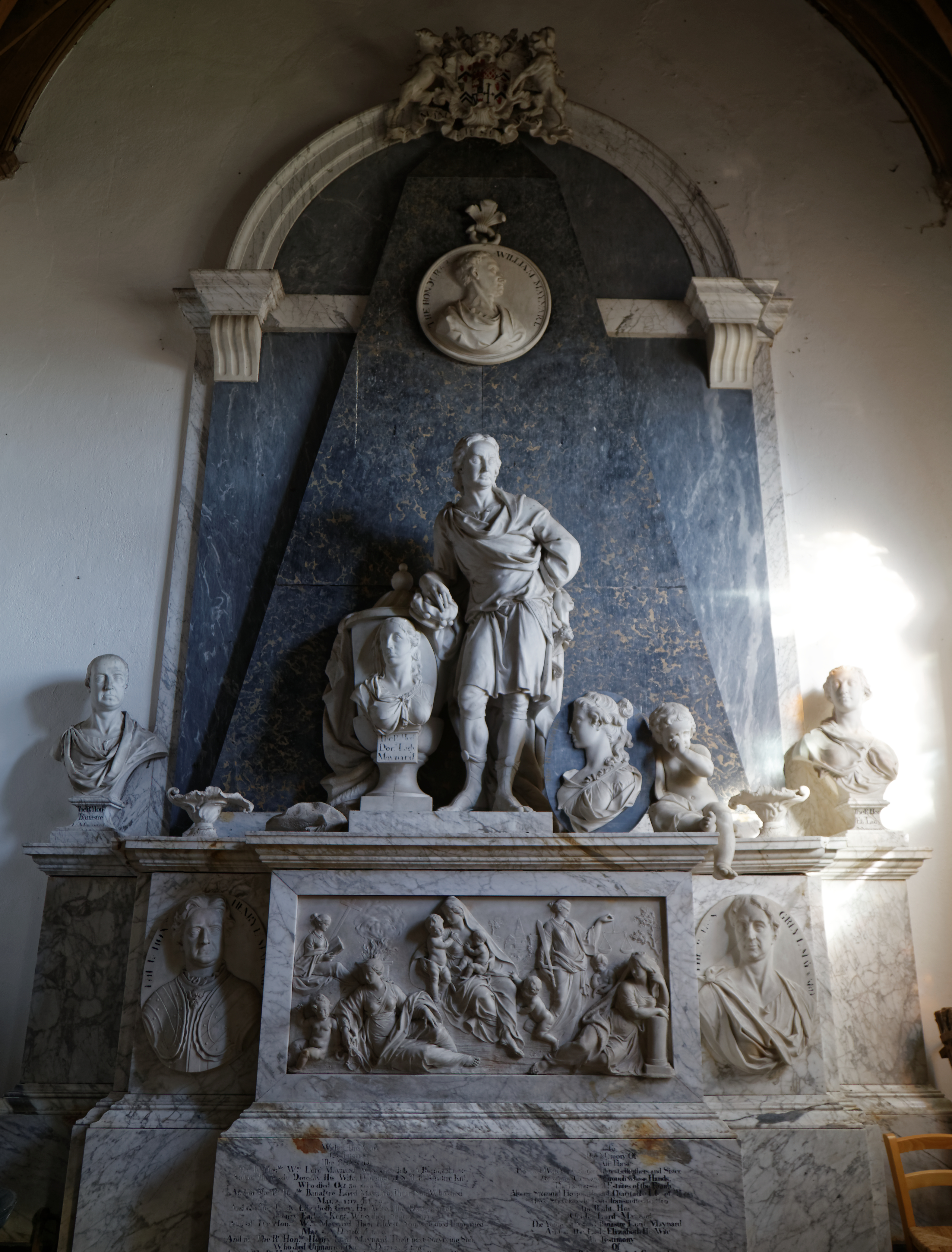 The 1746 monument for the Maynard family by the Danish sculptor working in England, Charles Stanley (1703-1761), commissioned by Charles Maynard, 1st Viscount Maynard (1690-1775),[1] in the Bouchier-Maynard South Chapel of the Church of St Mary the Virgin at Little Easton, Essex, England.Software: RAW file lens-corrected, optimized and converted to JPEG with DxO OpticsPro 10 Elite, and likely further optimized and/or cropped and/or spun with Adobe Photoshop CS2.